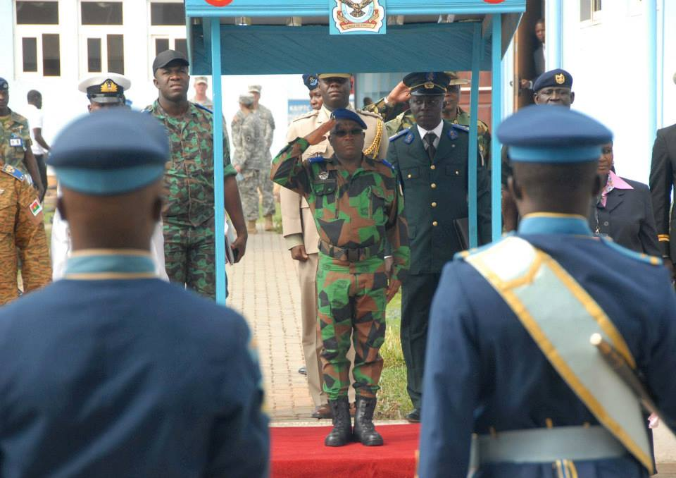 Ivory coast chief of defense staff Gen. Soumaila Bakayoko, center, returns a salute to members of the Kofi Annan International Peacekeeping Training Center honor guard June 26, 2013, in Accra, Ghana, as part of a distinguished visitors day during exercise Western Accord 2013. Western Accord is a U.S. Africa Command-sponsored, Marine Forces Africa-led multilateral field exercise and humanitarian mission in Senegal designed to increase interoperability between the United States and several West African partner nations.